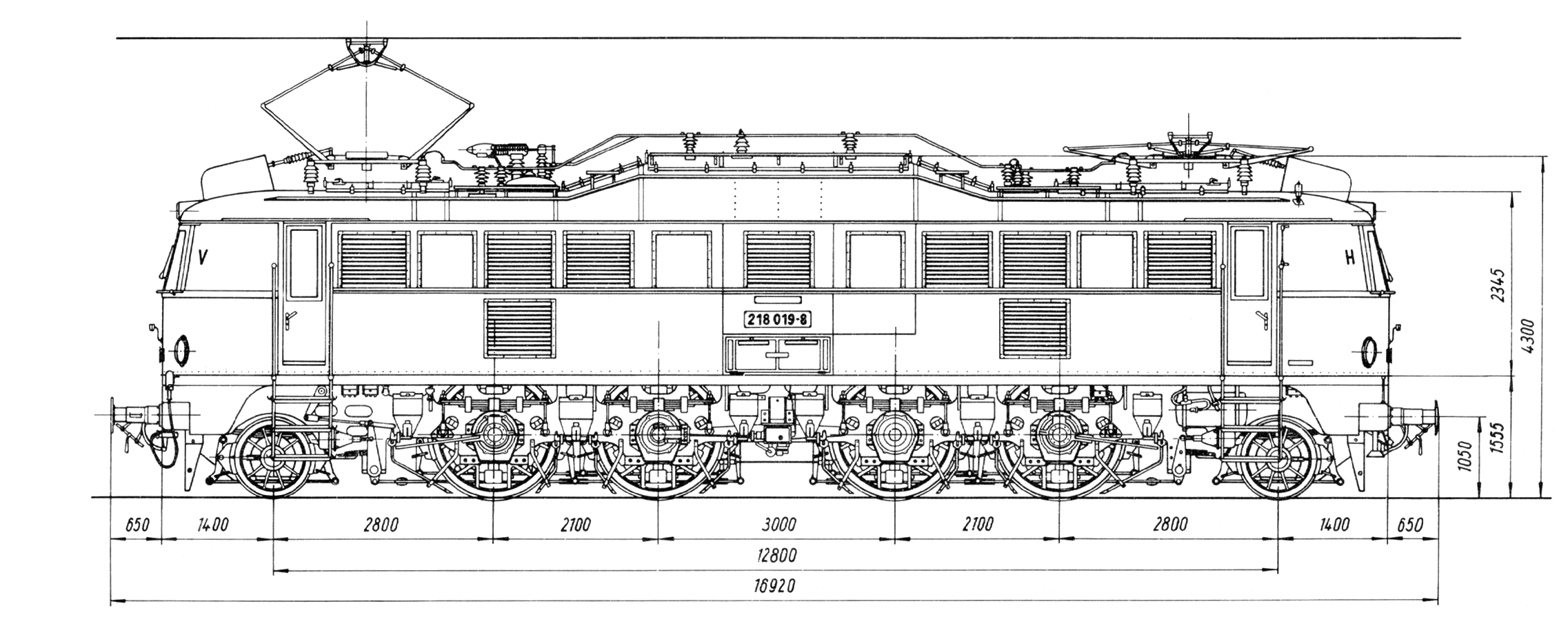 Sectional drawing of the electric locomotive number 218 019-8 of the Deutsche Reichsbahn